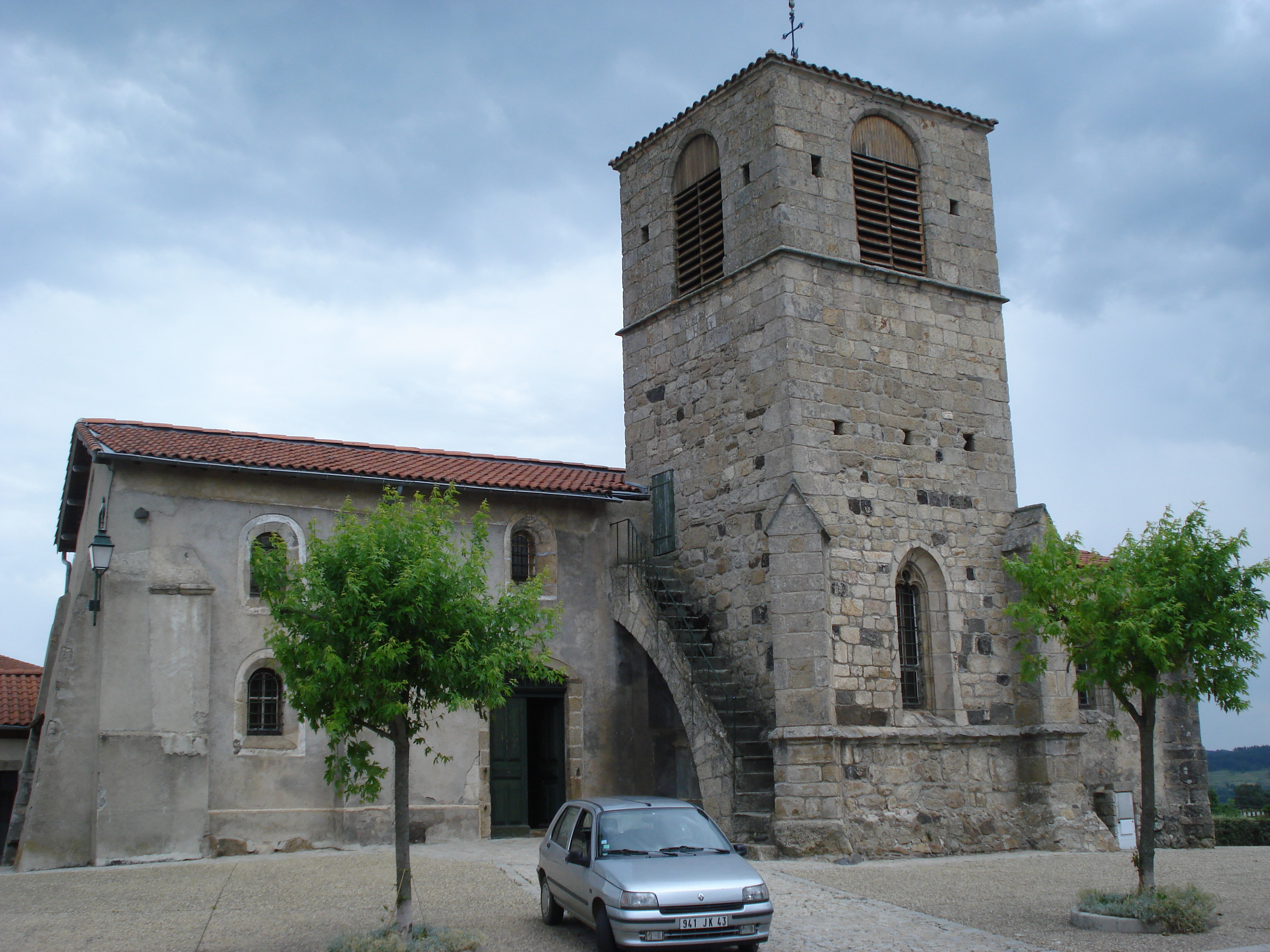 church of Saint-André-de-Chalancon (Haute-Loire, Fr).